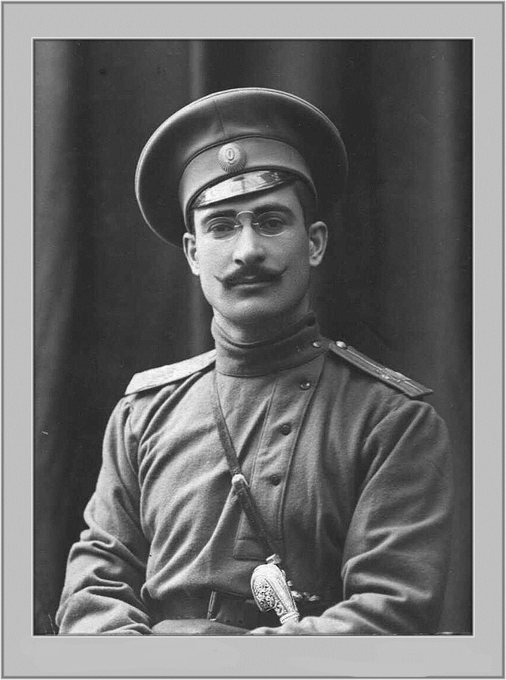 giorgi tukhareli